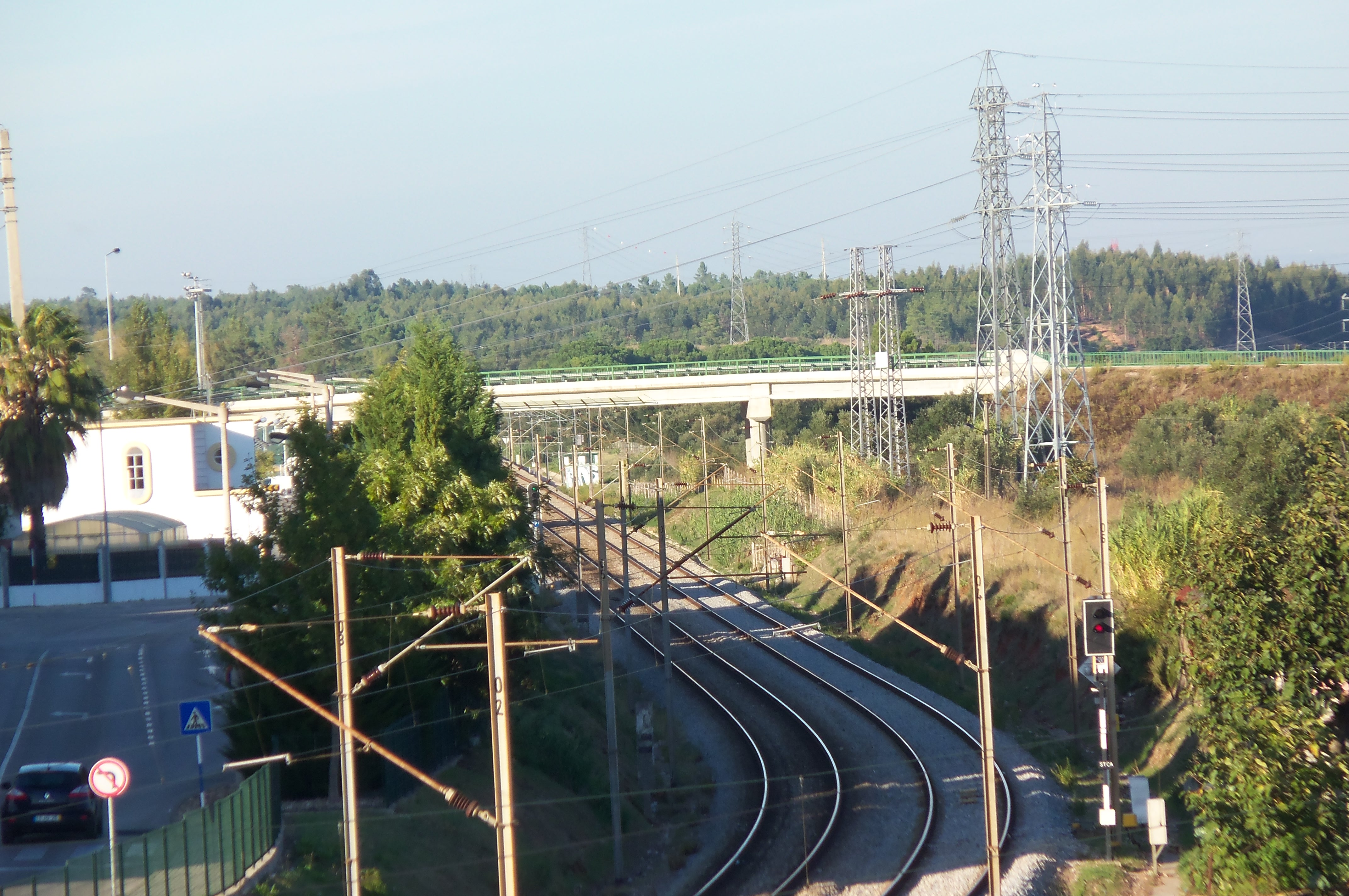 Bridge in the north, near a sports area.